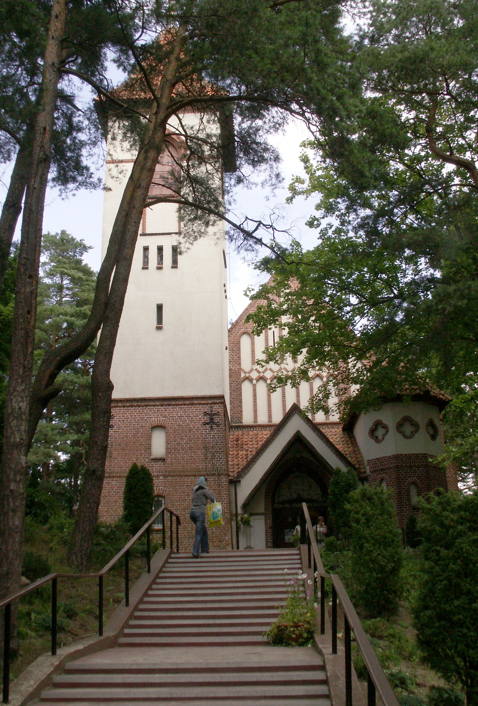 Church in Svetlogorsk in Kaliningrad oblast